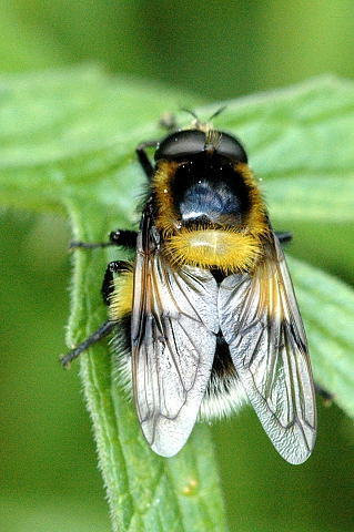 Picture taken in Commanster, Belgian High Ardennes . Species: Volucella bombylans